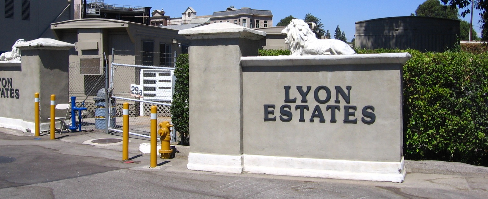 Back to the Future set